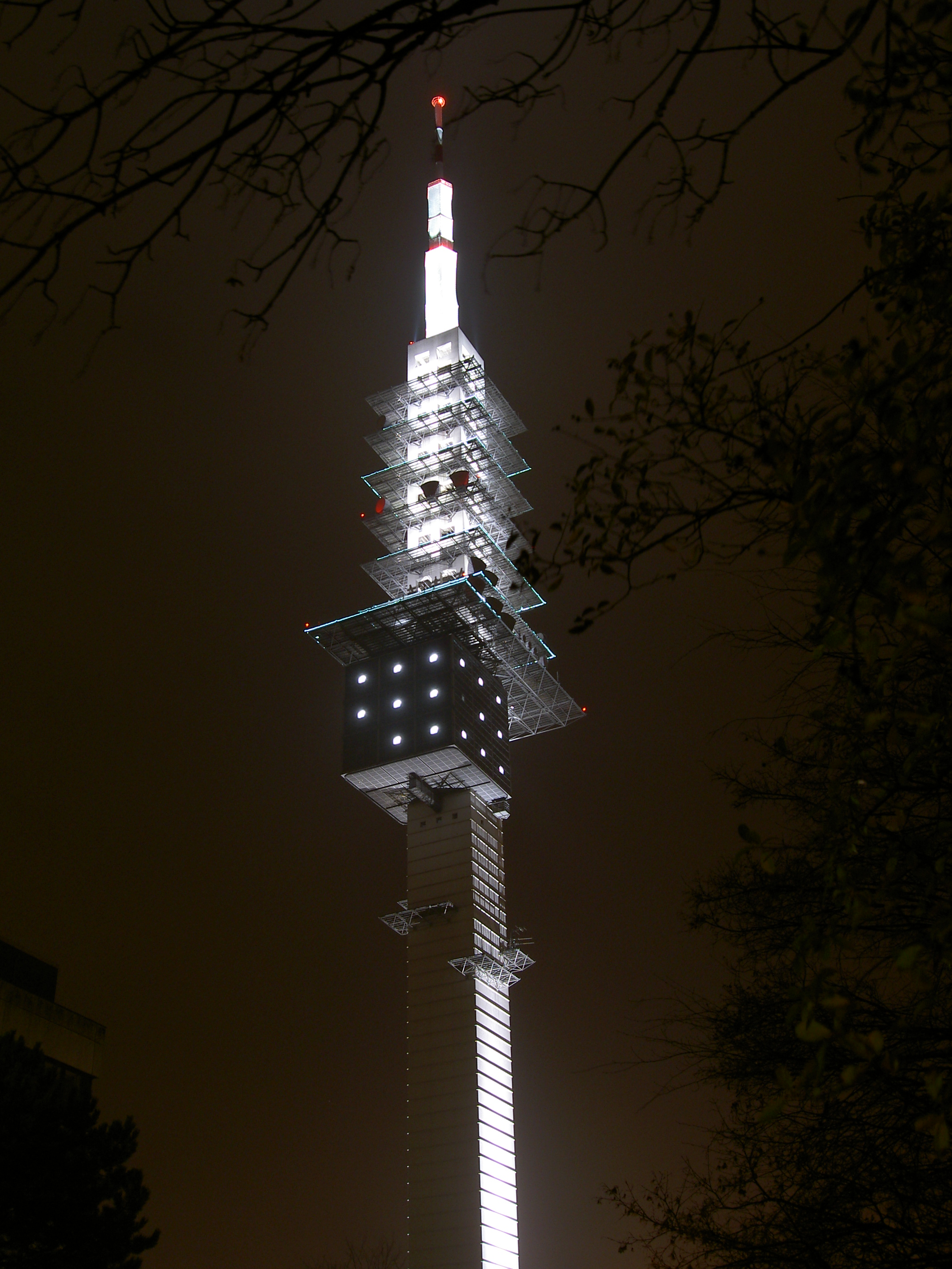 Telemax